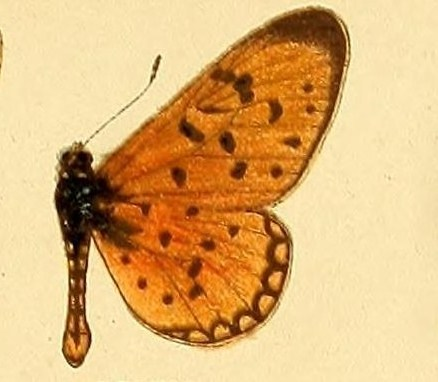 Acraea asema